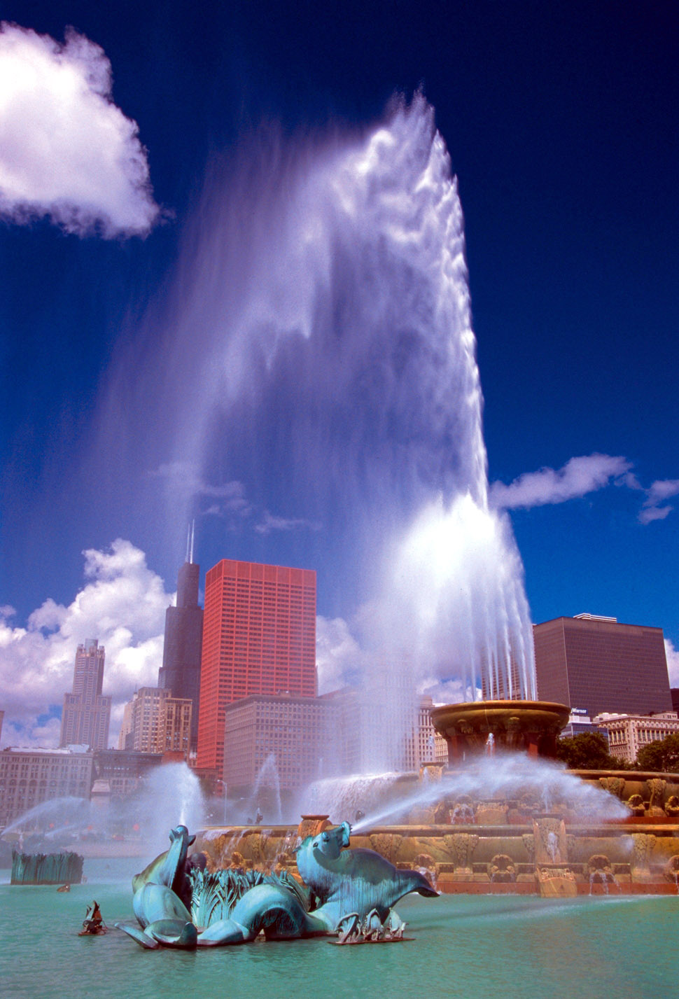 Buckingham Fountain in Chicago, Illinois.